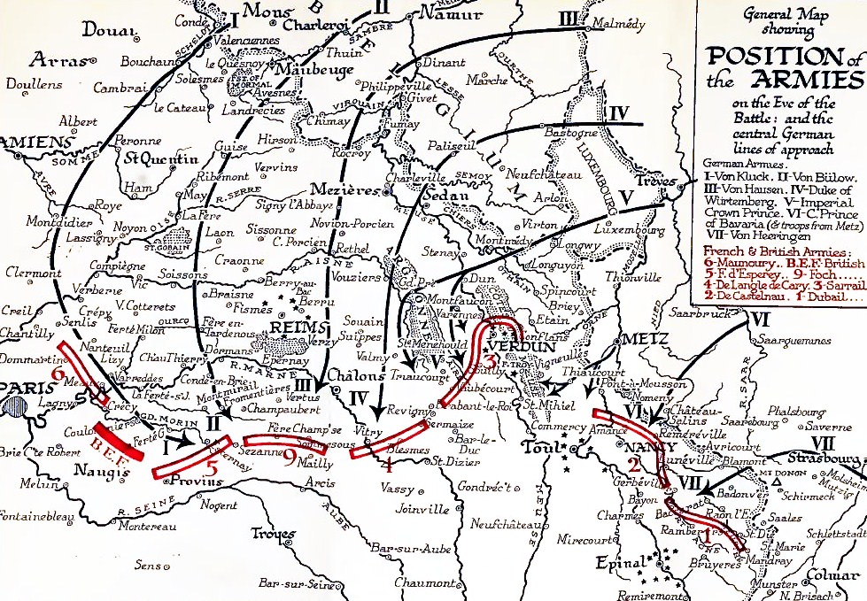 Map Position of the armies, September 1914